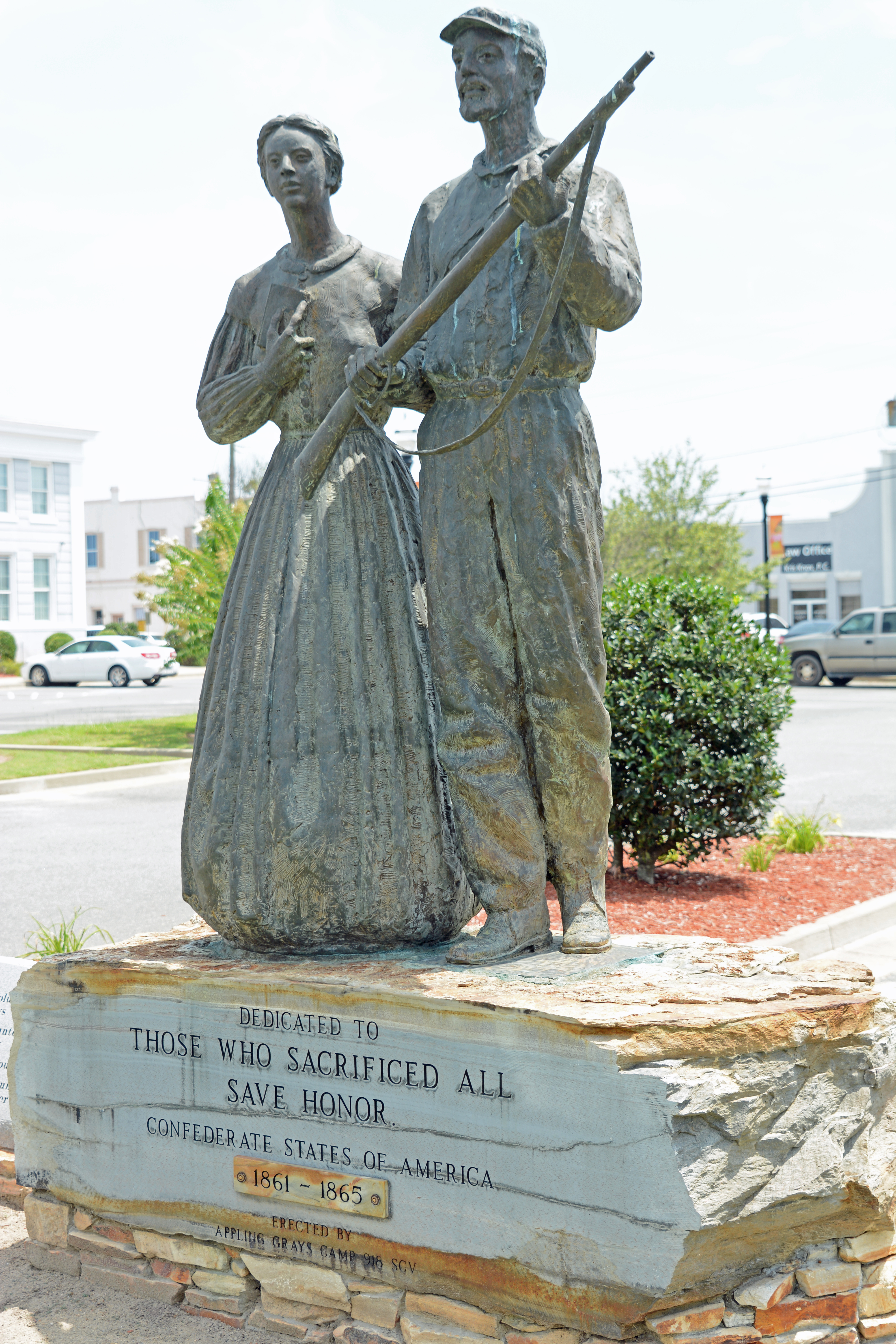 Memorial for Confederate sacrifices, Baxley, Georgia, US. Erected by the Sons of Confederate Vetrans.